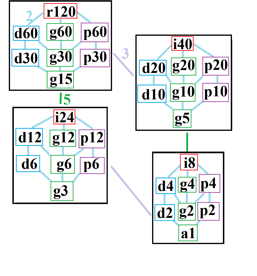 Hexacontagon symmetries.